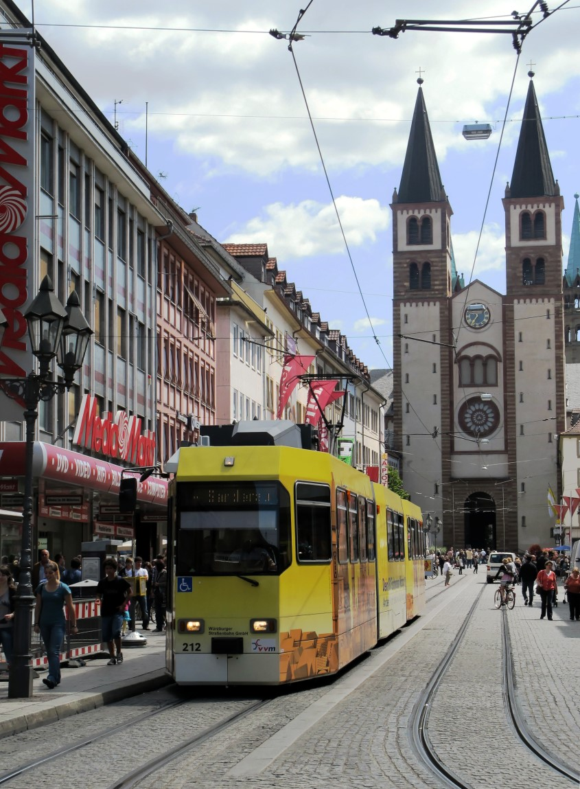 Würzburg, Tramway in Domstr.